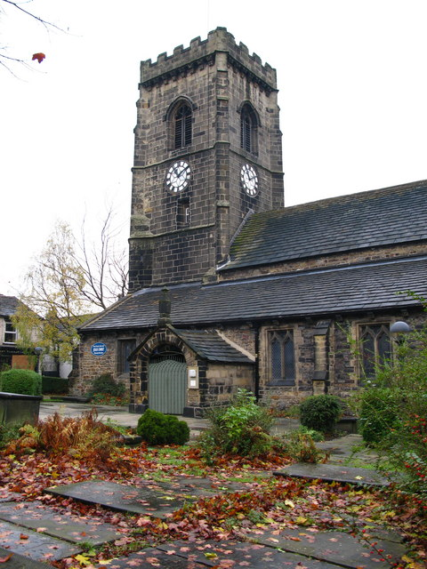 St Mary the Virgin, Elland This Grade I listed church had major renovations carried out at the end of the 15th century. The east window is dated to 1490 and still contains the original late medieval glass depicting scenes from the life of the Virgin Mary. The tower, which contains eight bells, is also of a similar date.